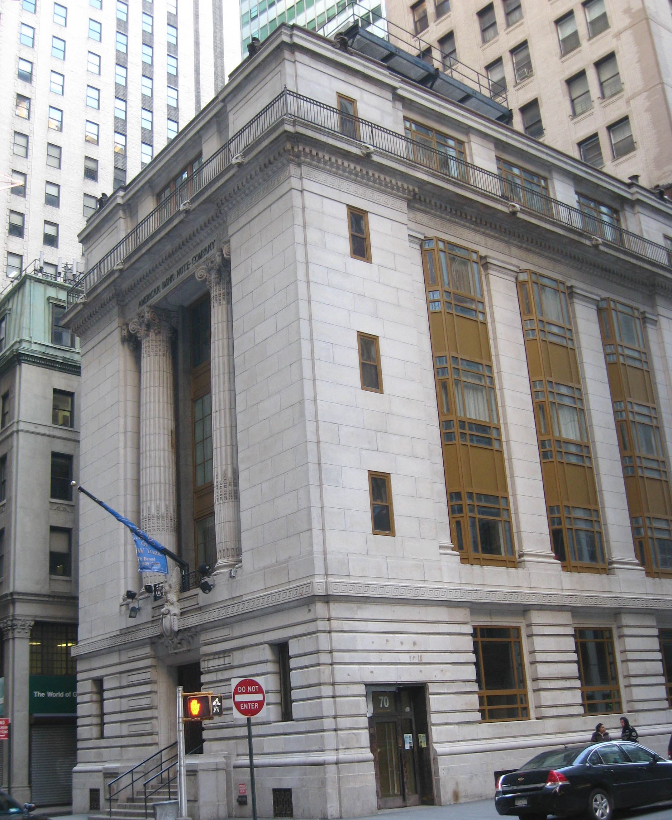 Looking southwest across Broad Street at American Bank Note Company building on a cloudy afternoon. NYCLPC designation 1997, Guidebook map 1.